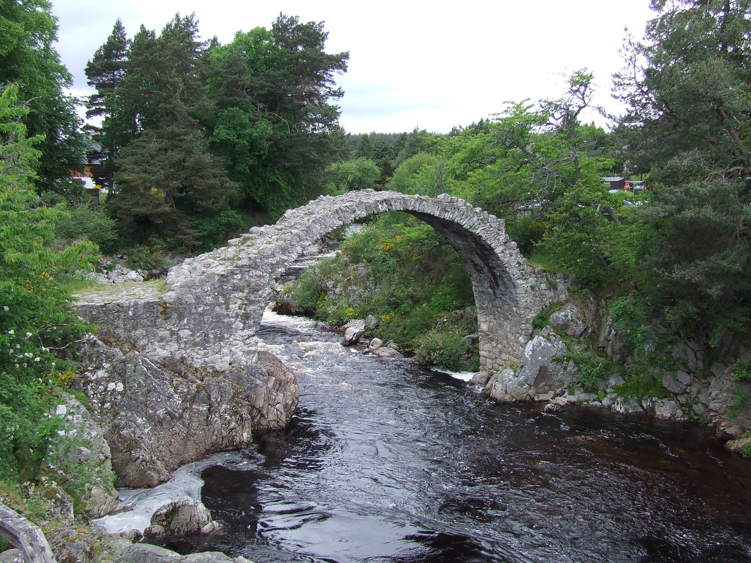 Old bridge in Carrbridge